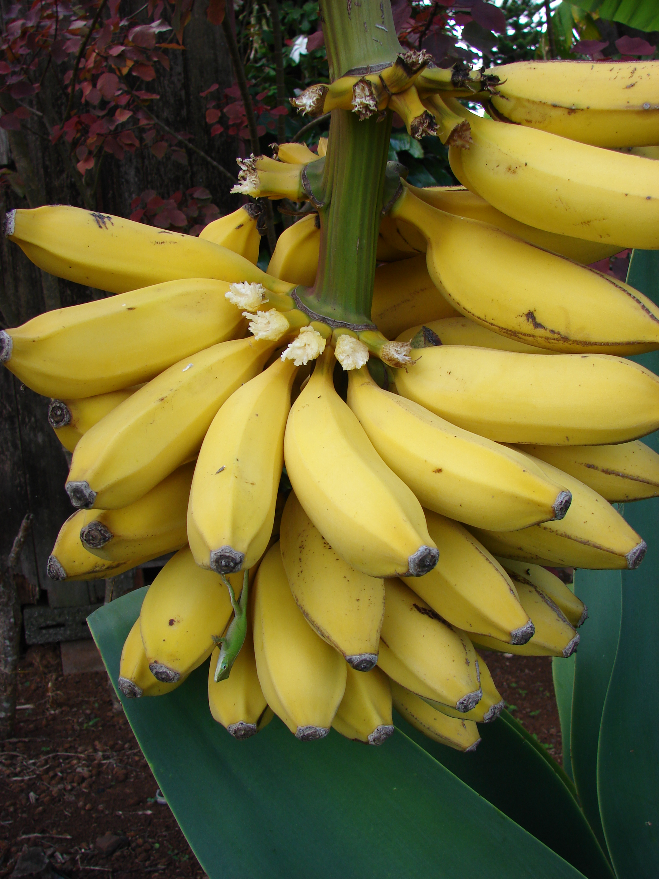 Musa sp. (fruit with green anole). Location: Maui, Makawao